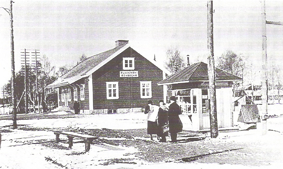 Pukinmäki railway station 1930s